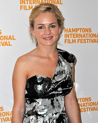 Actress Britt Robertson attends Breakthrough Performers Brunch during 18th Annual Hamptons Film Festival 2010.